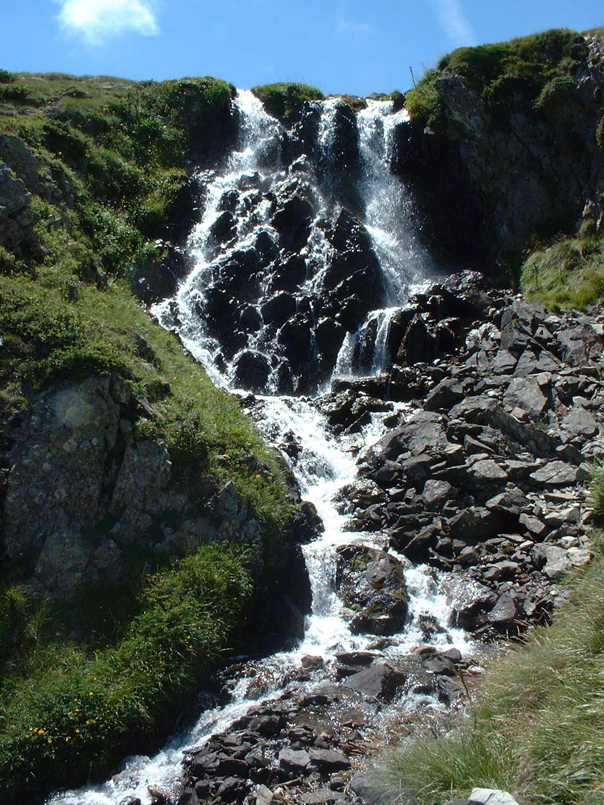 Waterfall in Pyrénées (France)